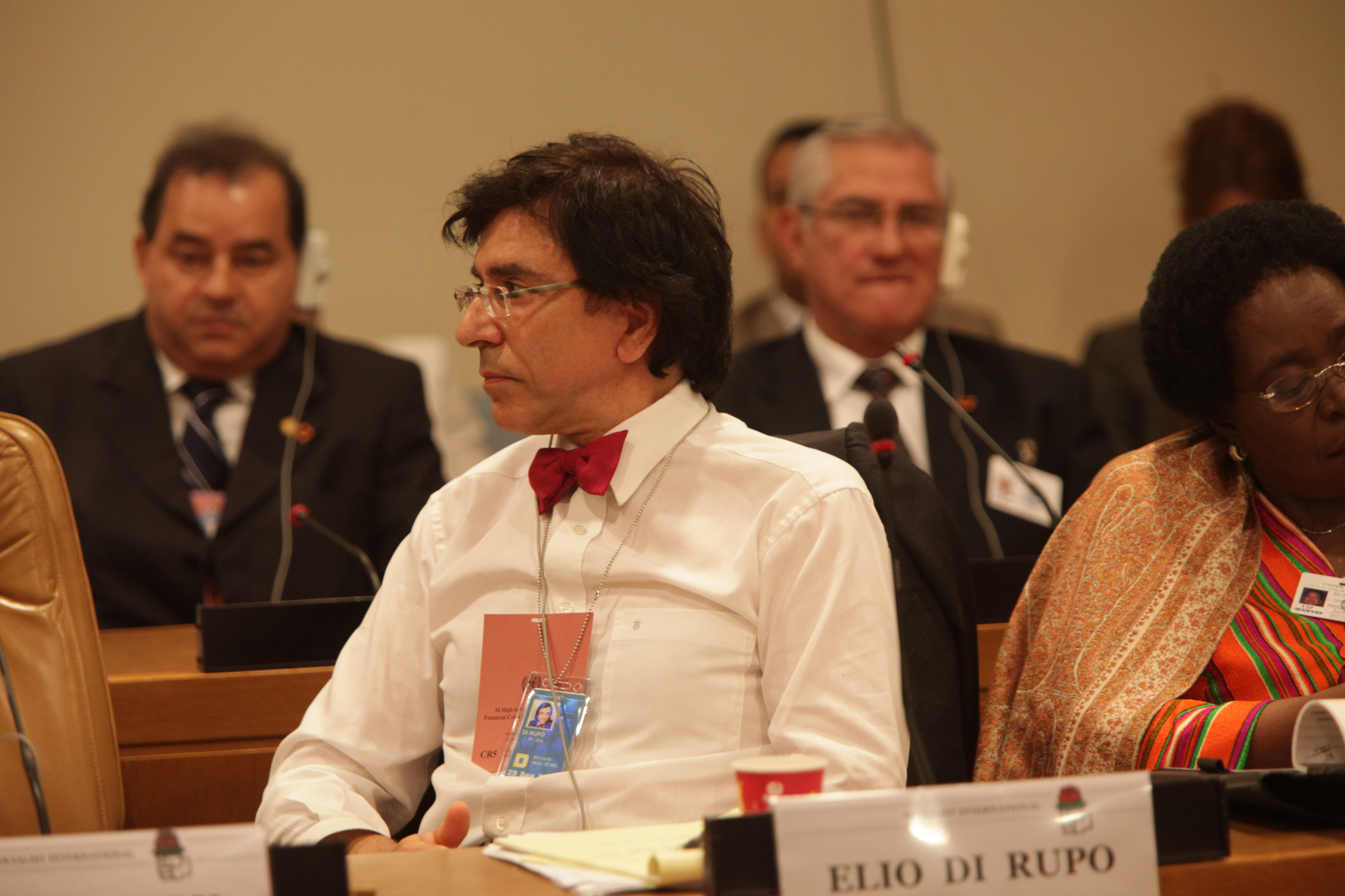 Elio Di Rupo at a 2009 Socialist International Presidium meeting.